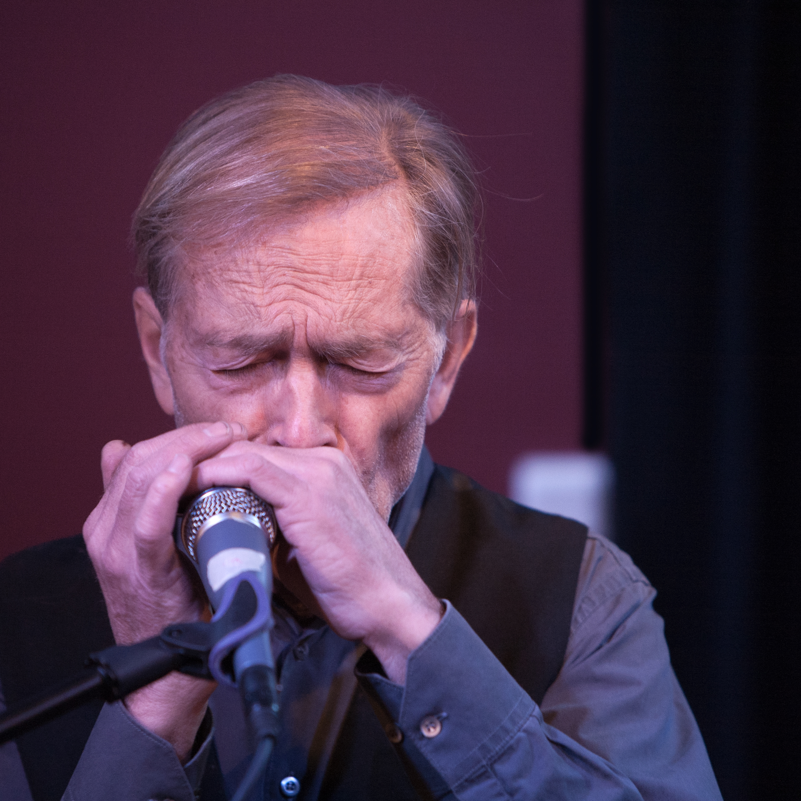 Bill Öhrström plays many instruments including the harmonica